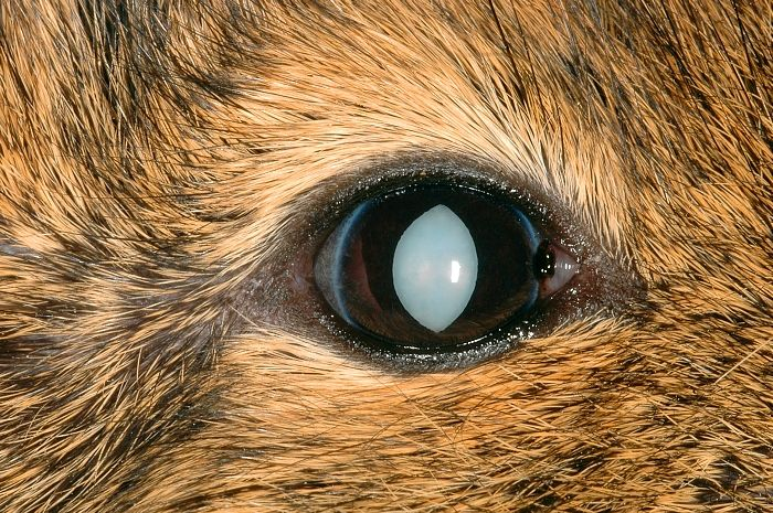 Octodon degus eye with cataract